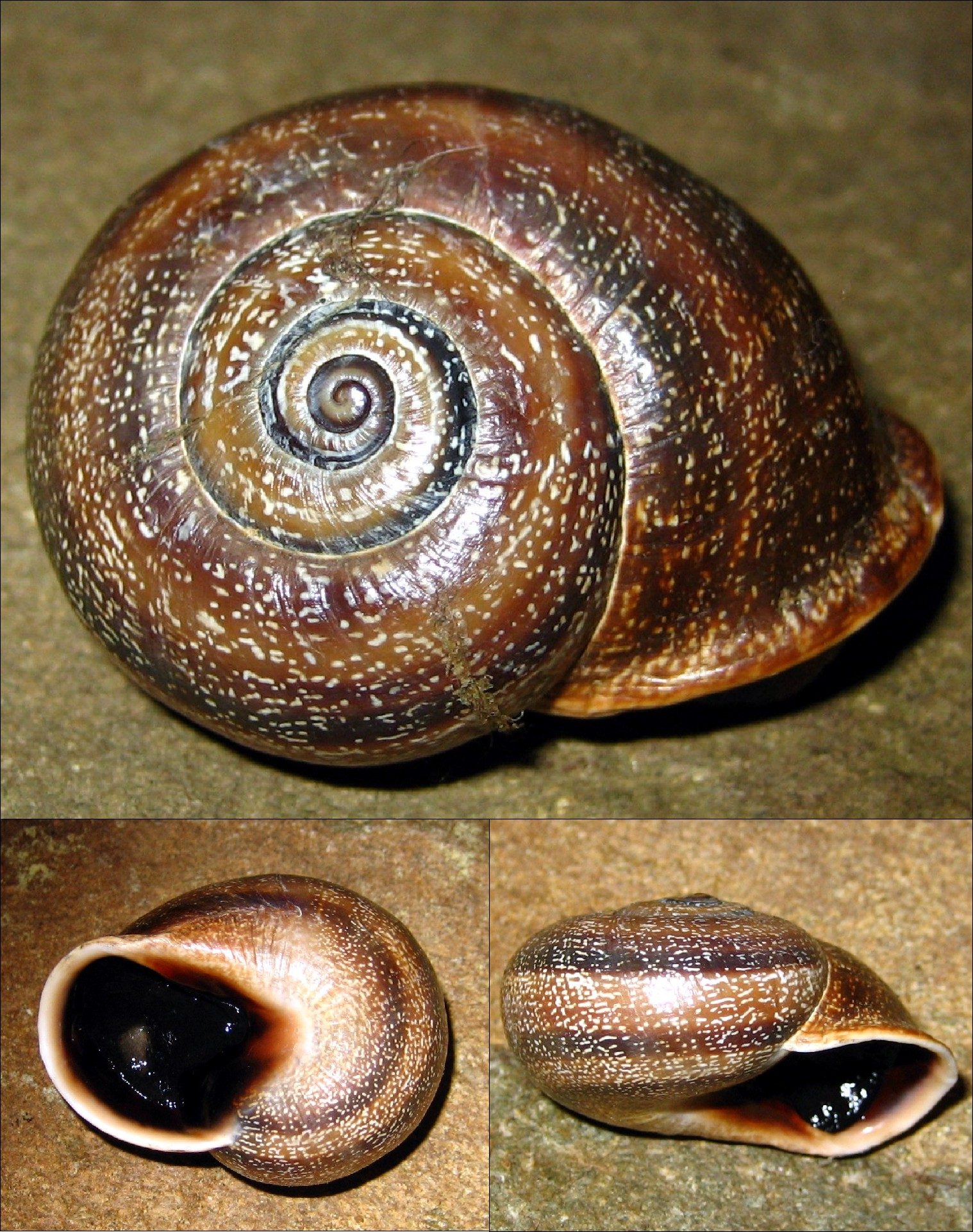 Otala punctata; Terrassa, Catalonia, Spain